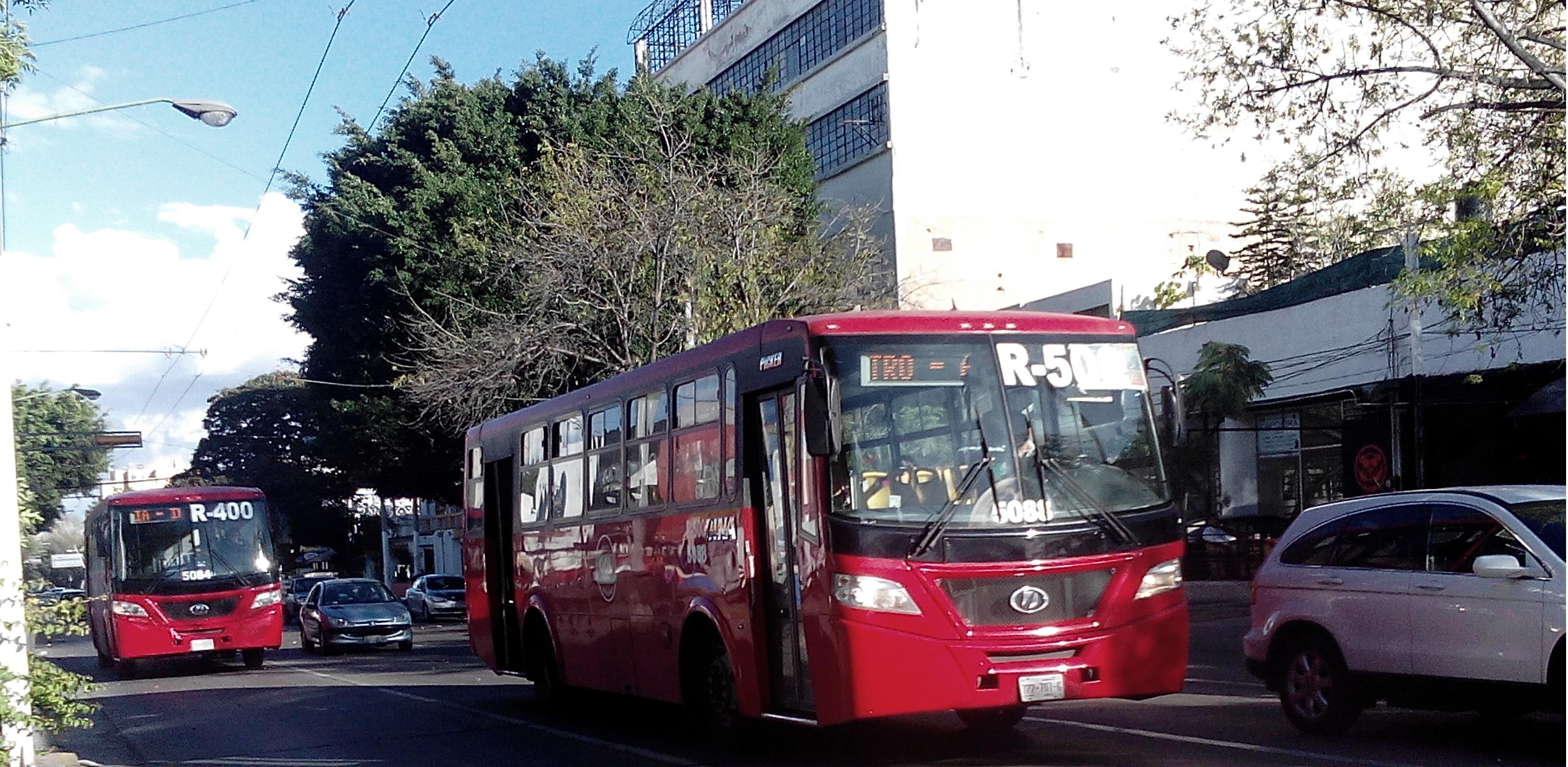 Buses in Guadalajara, Mexico.